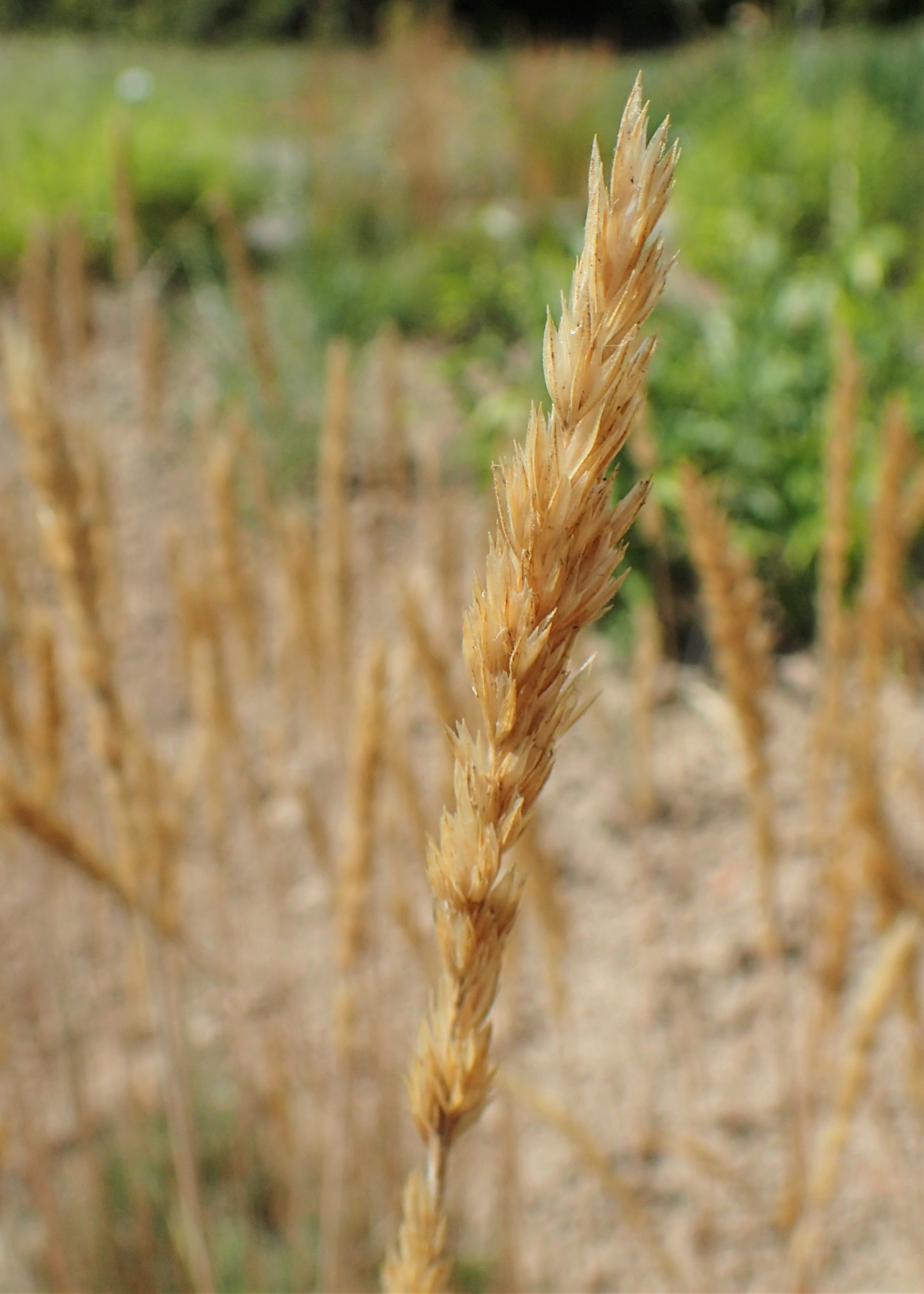 Koeleria vallesiana in the UMCS Botanical Garden in Lublin